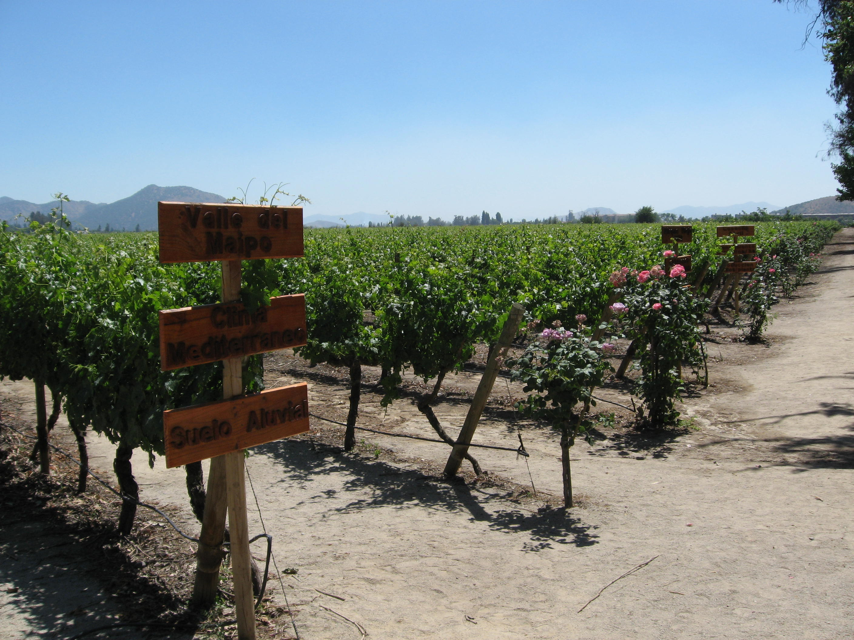 A view of the Maipo Valley from the Concha y Toro vineyard outside of Santiago, Chile.